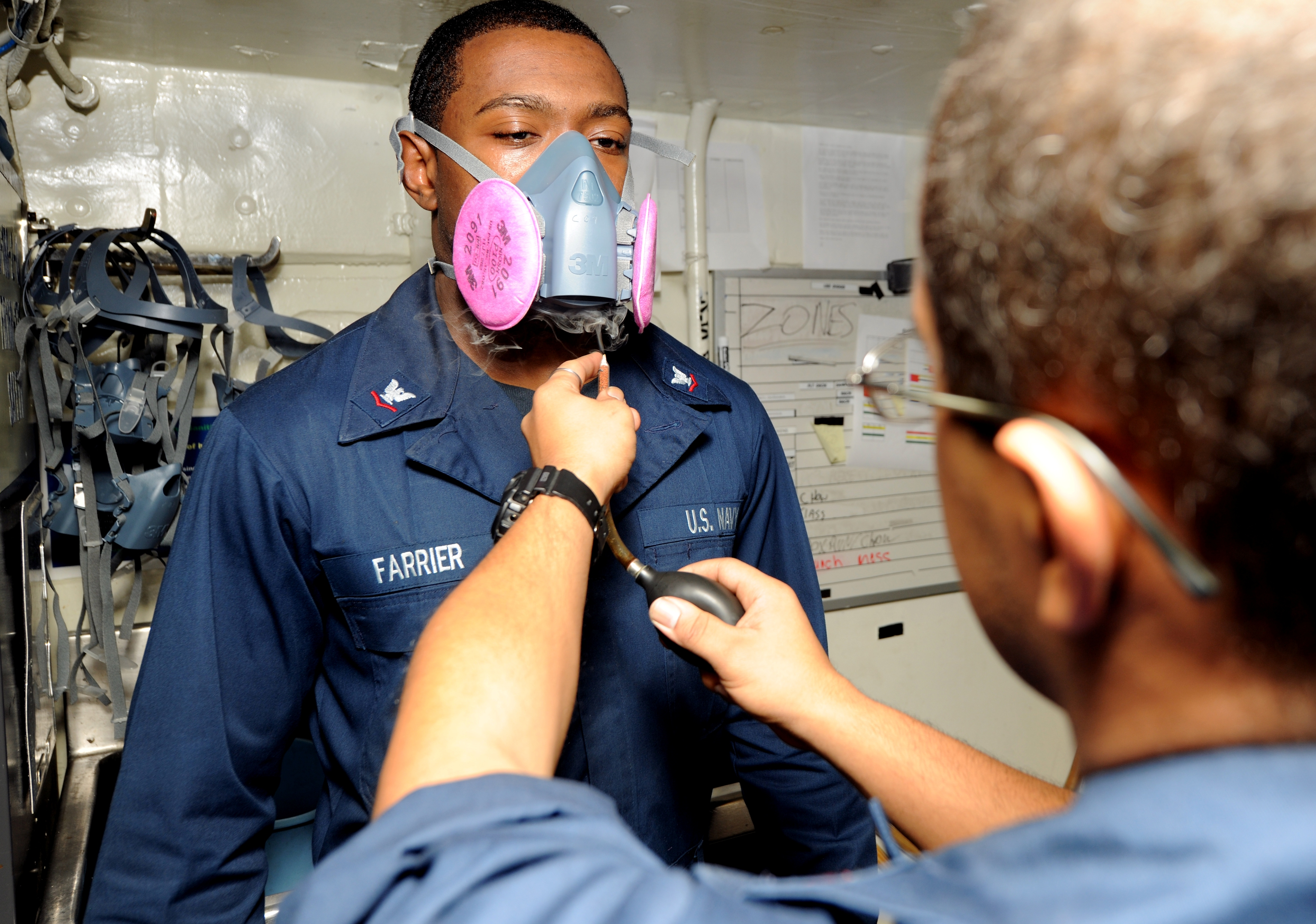 ARABIAN GULF (April 29, 2011) Boatswain's Mate 3rd Class Shaka K. Farrier dons a respirator as irritant smoke is released into the air as part of a respirator fit test aboard the aircraft carrier USS Enterprise (CVN 65). Enterprise and Carrier Air Wing (CVW) 1 are conducting operations in support of Operation New Dawn in the U.S. 5th Fleet area of responsibility. (U.S. Navy photo by Mass Communication Specialist Seaman Daniel J. Meshel/Released)